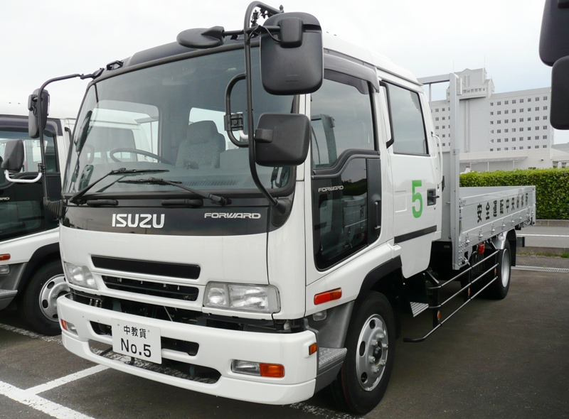 Isuzu Forward of Central Training Academy for Safe Driving.